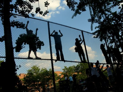 Fans hanging on a fence to watch Showdown in Chinatown charity soccer match at Sara D. Roosevelt Park in Chinatown/Lower East Side, Manhattan, June 25, 2008.